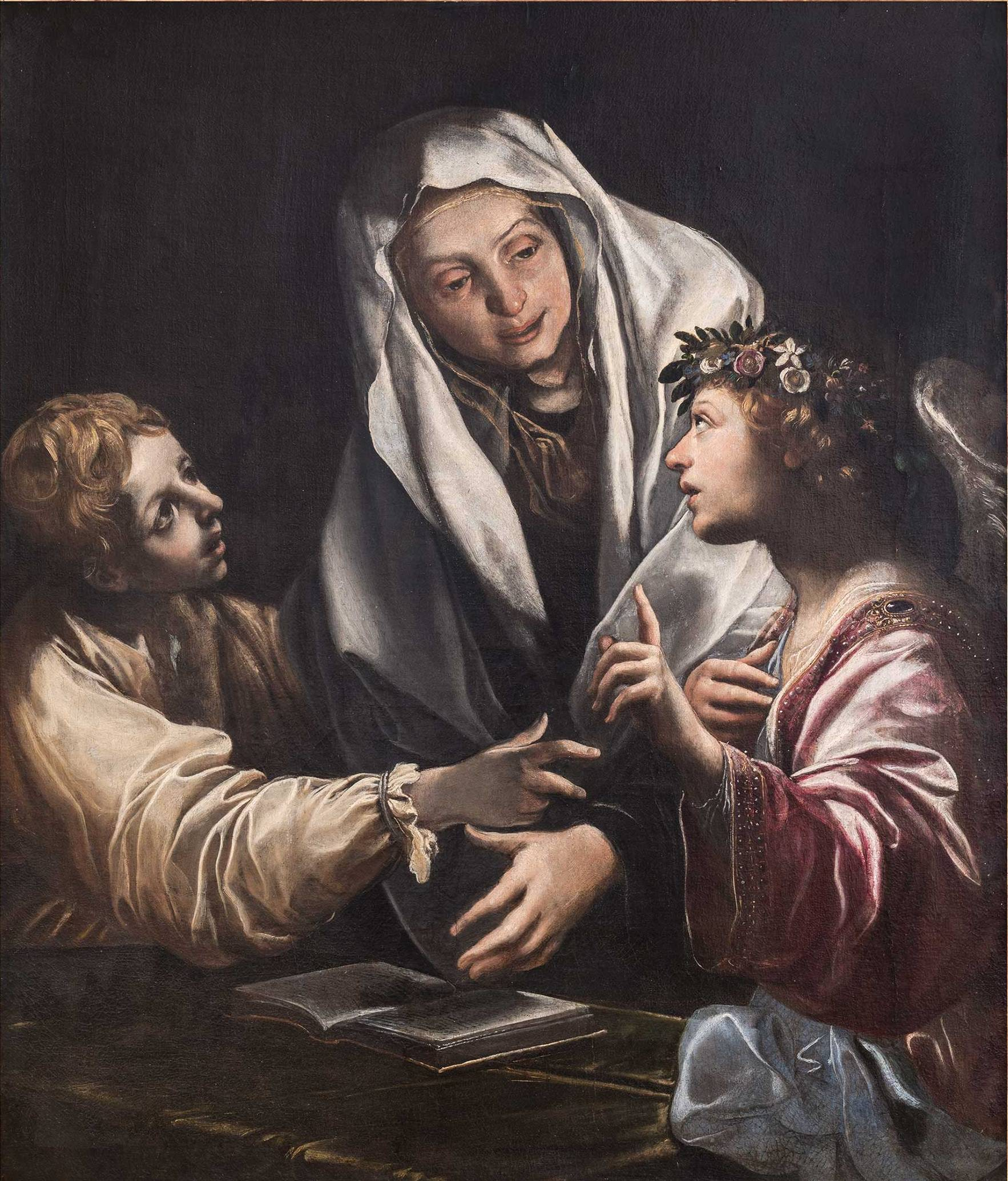 The apparition to Saint Francesca Romana